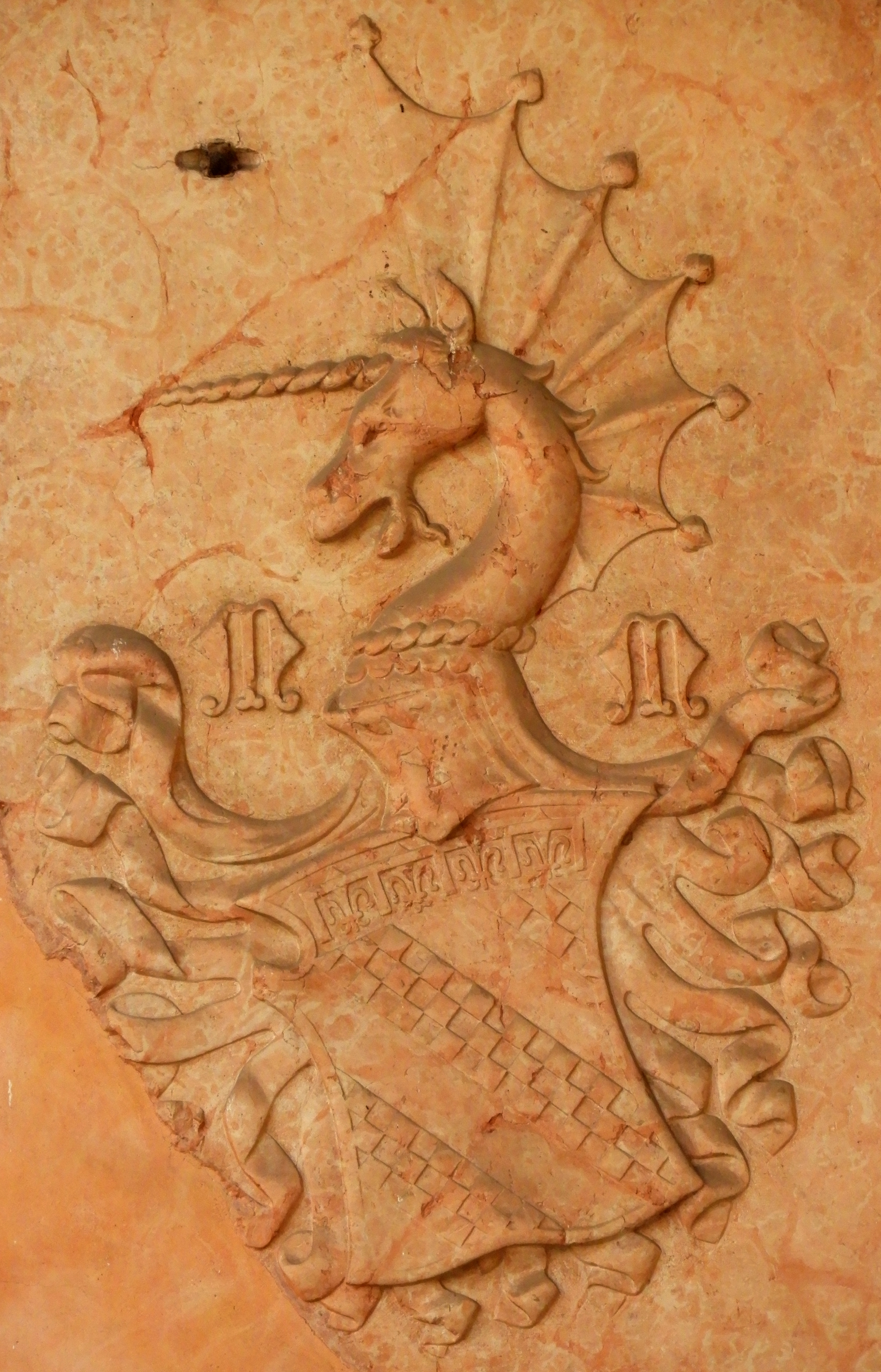 Tomb plate with coat of arms of the Boccacci family of Fano, first half of the 15th century, porch of the former church of San Francesco in Fano (PU = Pesaro e Urbino, Marche, Italia)